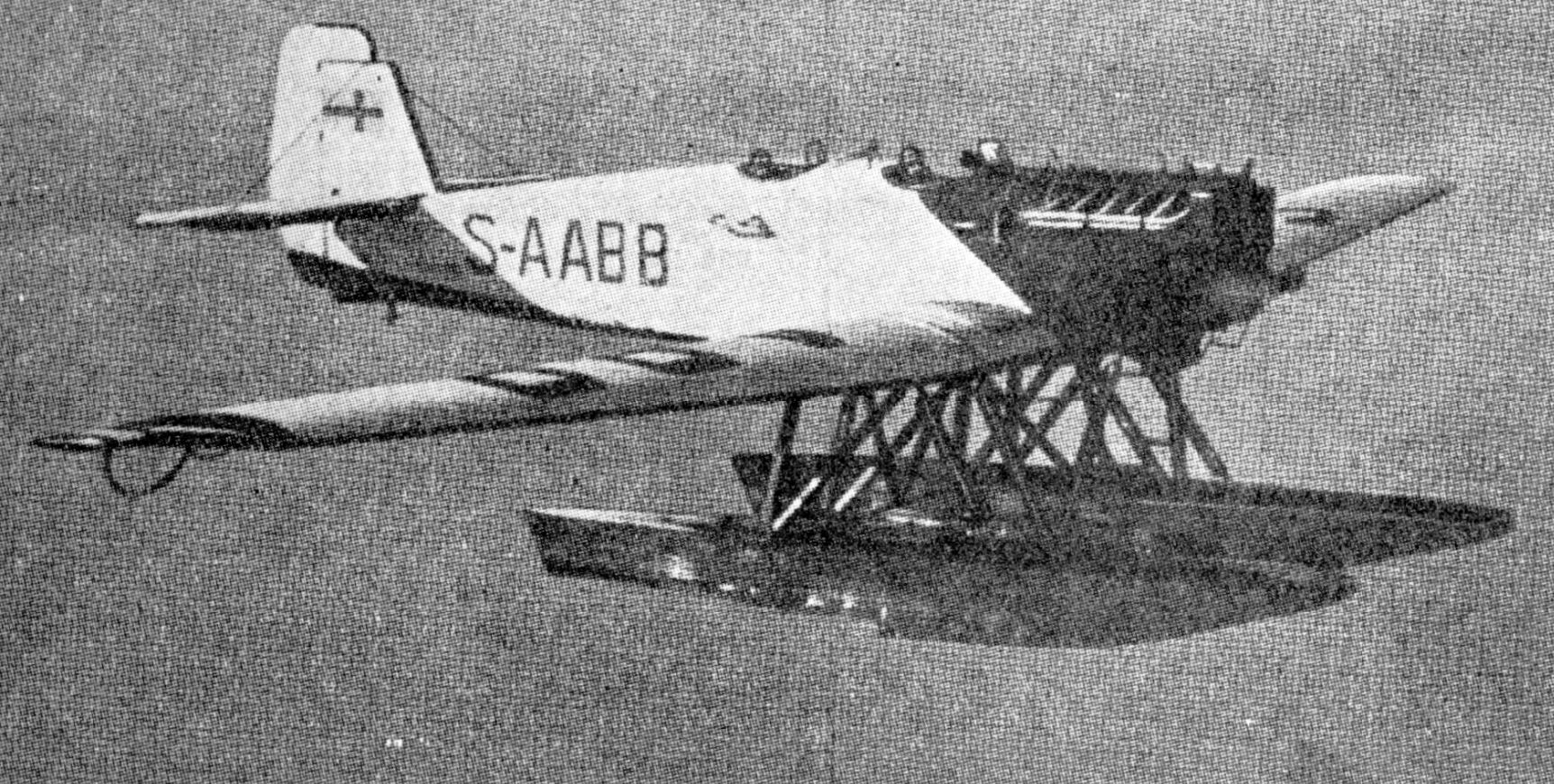 Junkers/AB R02 S-AABB, photo from Le Document aéronautique August,1927